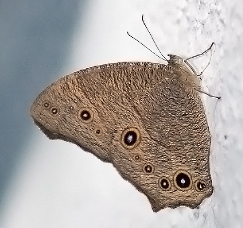 Evening Brown : Melanitis leda